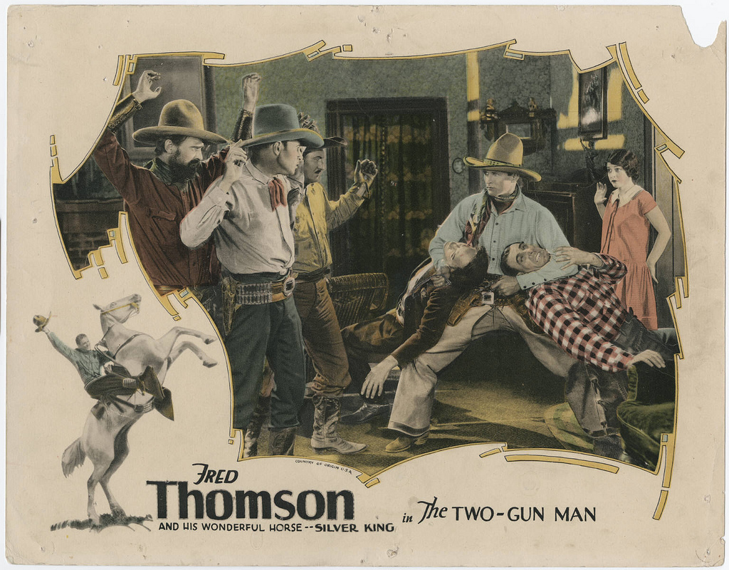 Lobby card for the film The Two-Gun Man (1926). Caption: "Fred Thomson and his wonderful horse -- Silver King in The Two-Gun Man." Approximately 27.8 x 35.5 cm. Part of the Western silent films lobby card collection, 1912-1930. Cite as Yale Collection of Western Americana, Beinecke Rare Book & Manuscript Library, Yale University. Bibliographic Record Number 2019963. View our Record Permalink.